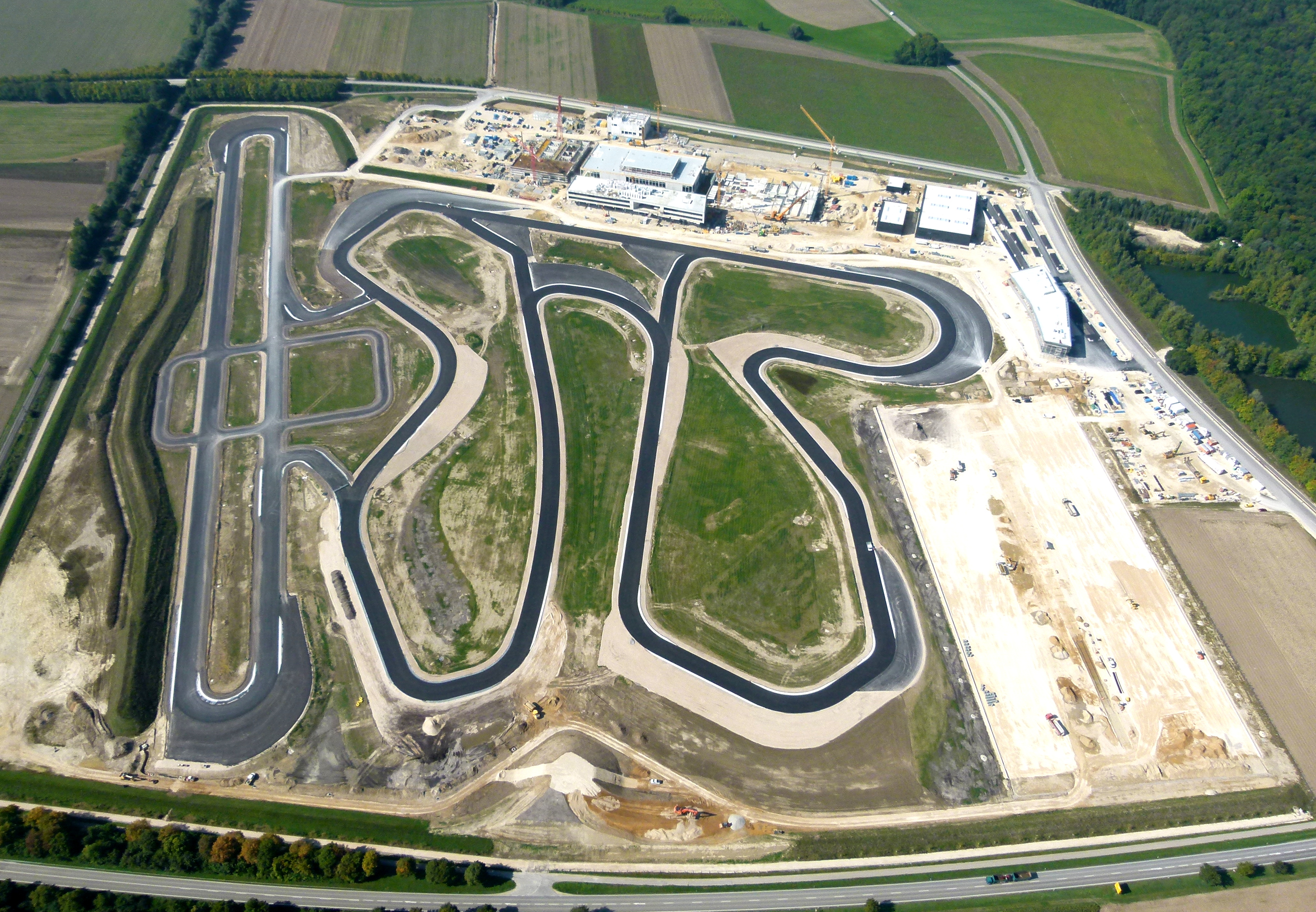 Aerial photograf of Audi driving experience center in Neuburg an der Donau during construction in 2013.